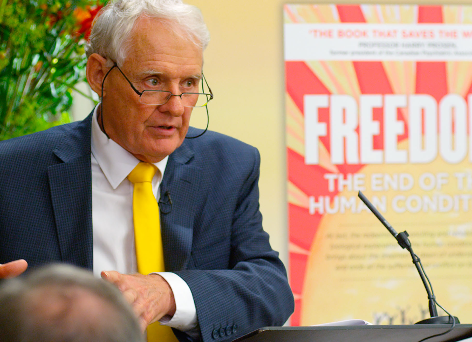 Author and biologist Jeremy Griffith presenting at the launch of ‘FREEDOM’, Royal Geographical Society, London on 2 June 2016